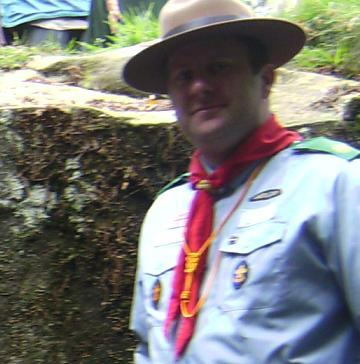 An Air Rover Scout of the B-PSA, for use in relation to articles relating to the Baden-Powell Scouts Association on Wikipedia.